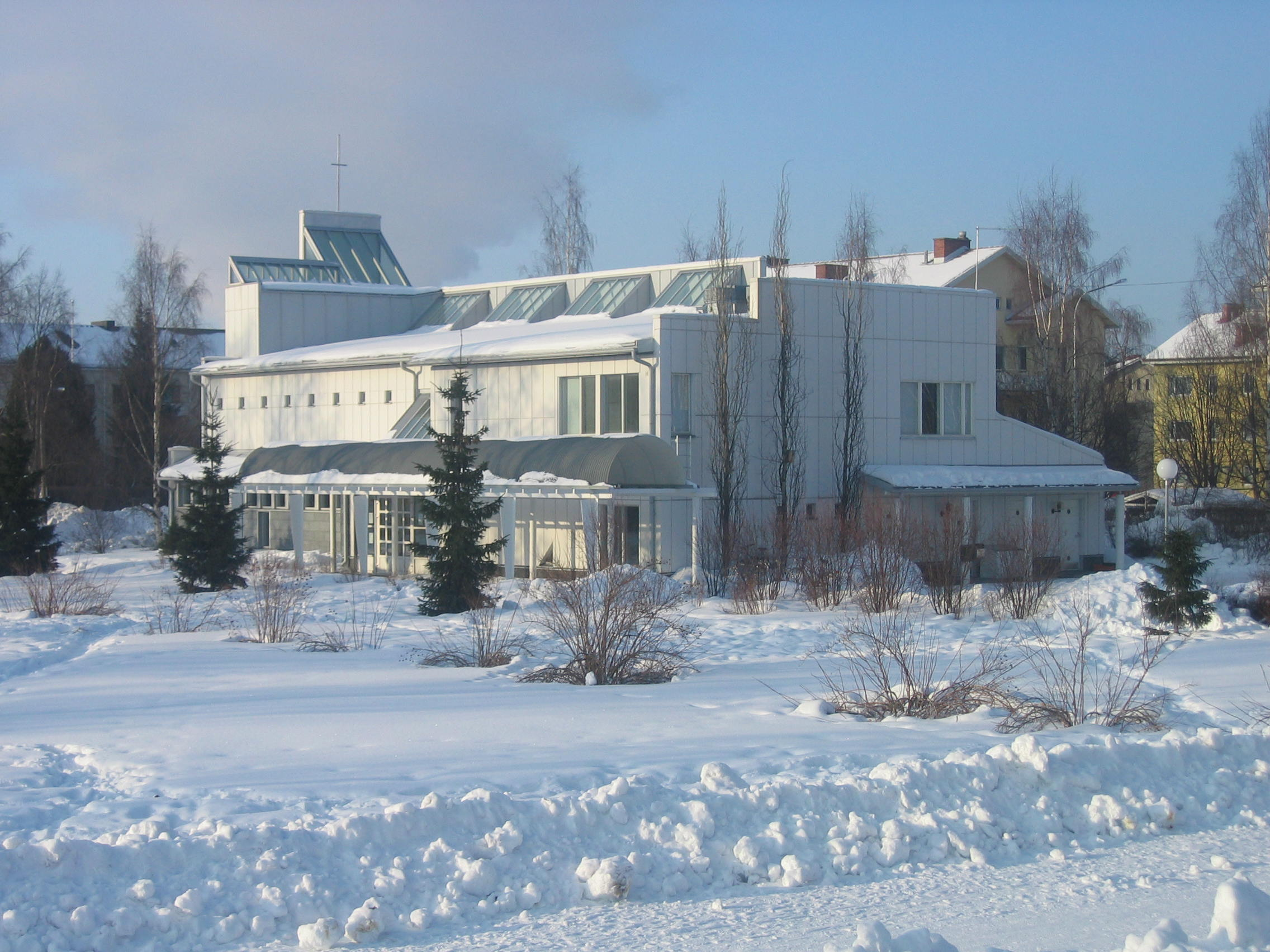 The adventist church of Oulu, Finland. The church was designed by architect Heli Juola and complted in 1993.